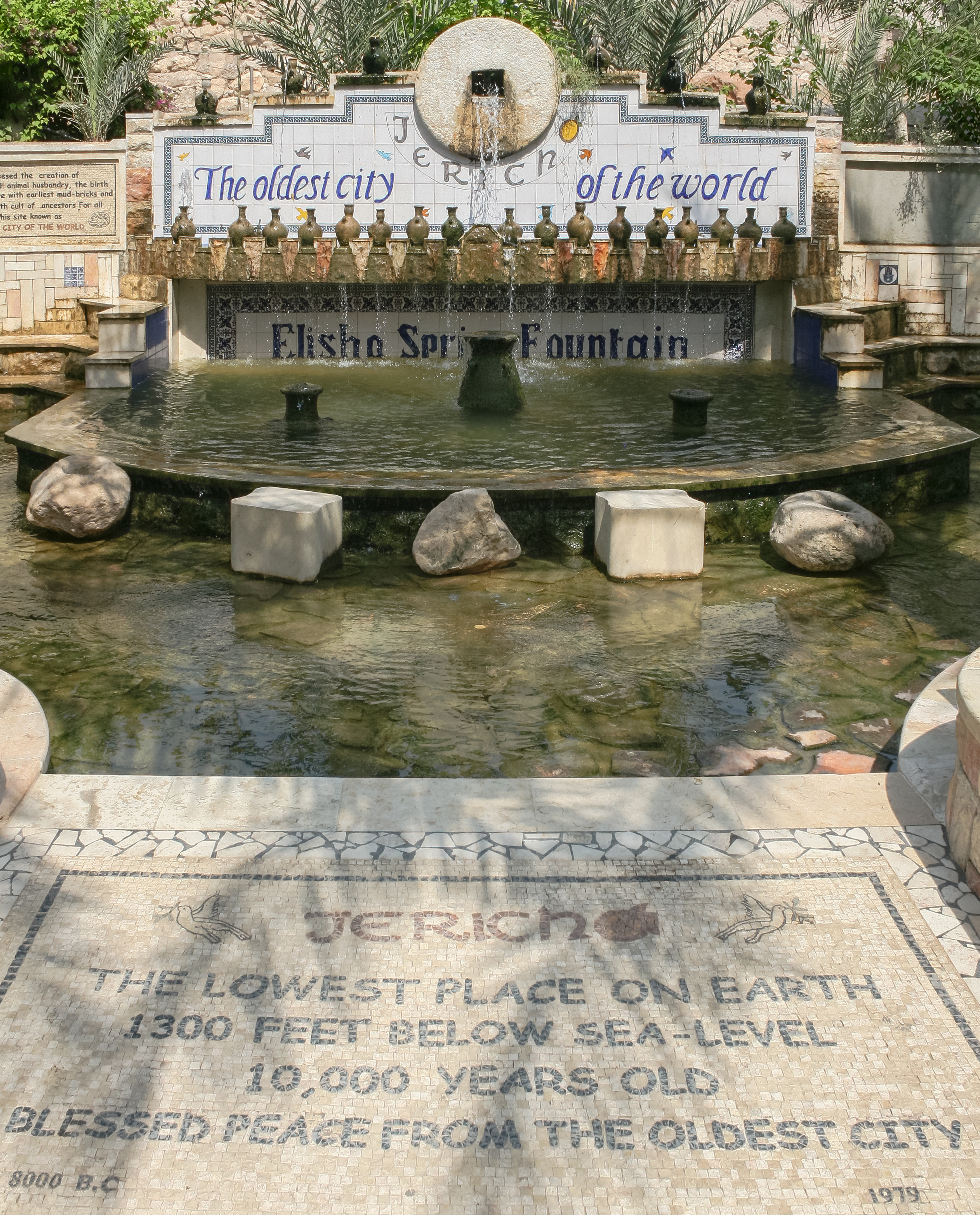 Jericho, Palestine